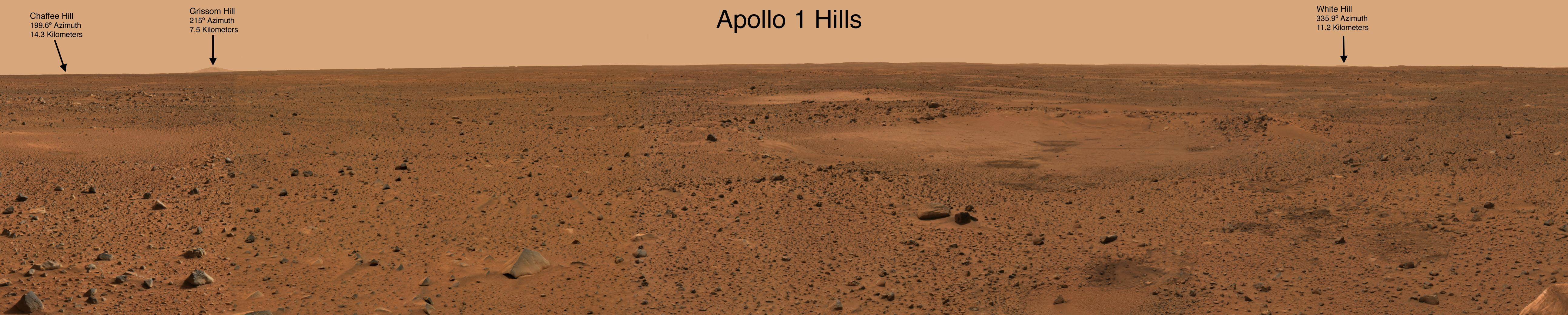 An image taken from Spirit's PanCam looking west depicts the nearby hills named after the astronauts of the Apollo 1. The crew of Apollo 1 perished in flash fire during a launch pad test of their Apollo spacecraft at Kennedy Space Center, Fl. on January 27, 1967.